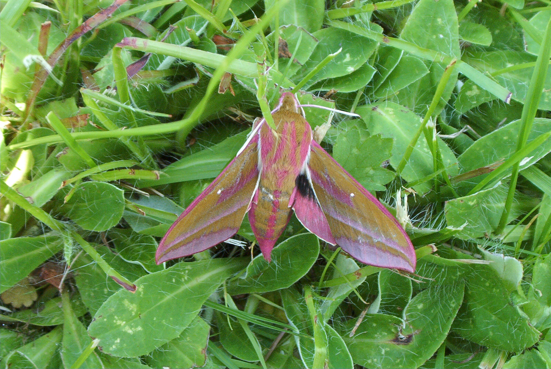 Elephant hawk moth